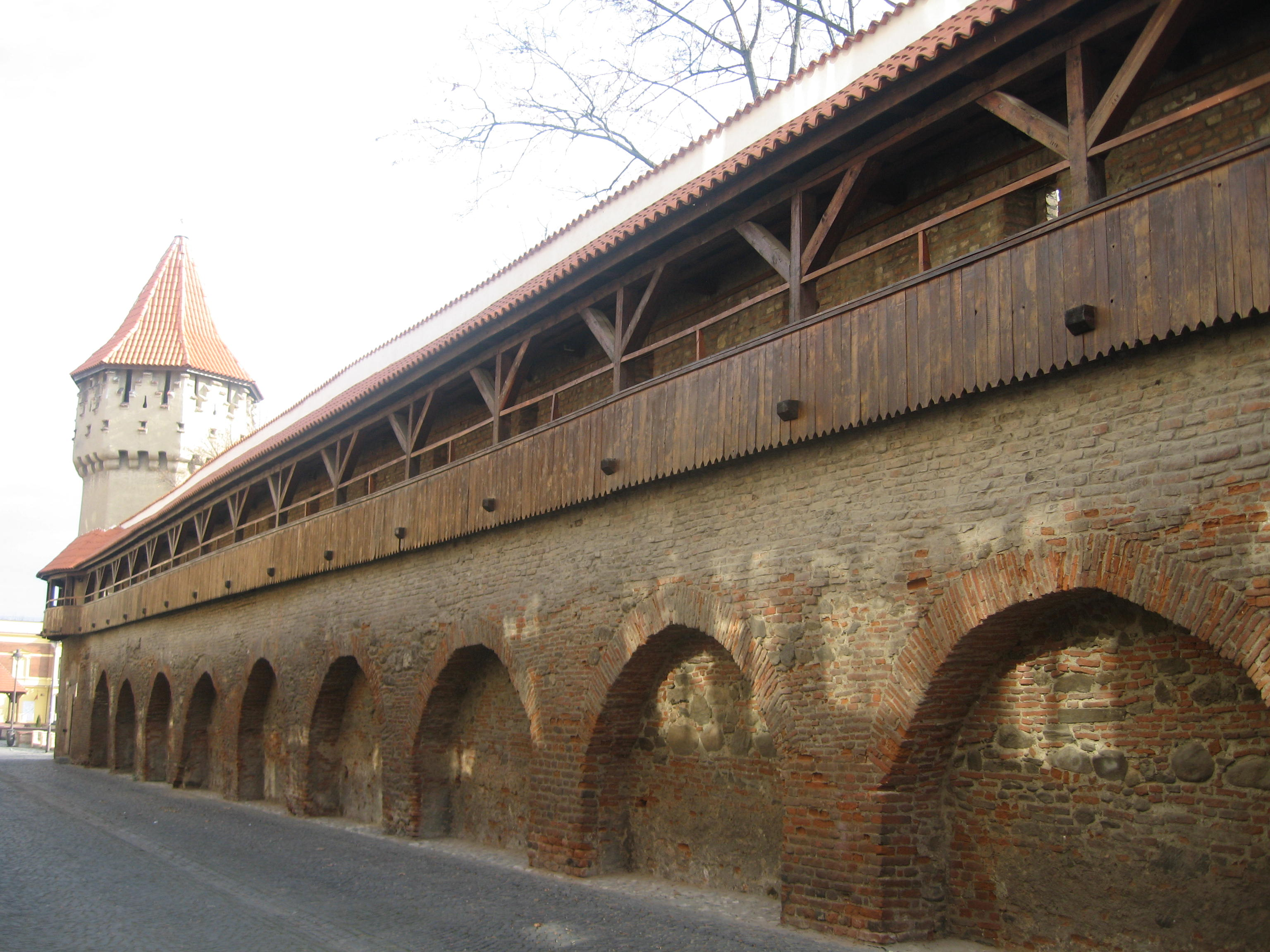 Turnul Dulgherilor in Sibiu, Romania